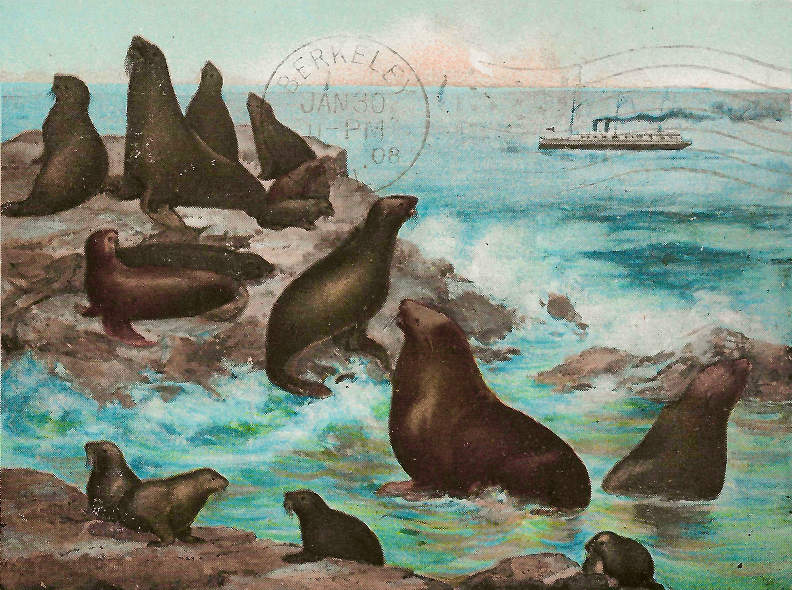 Picture from a postcard of The World Famous Seal Rocks, Cliff House, San Francisco, California by Britton & Rey, San Francisco. ca. 1908.